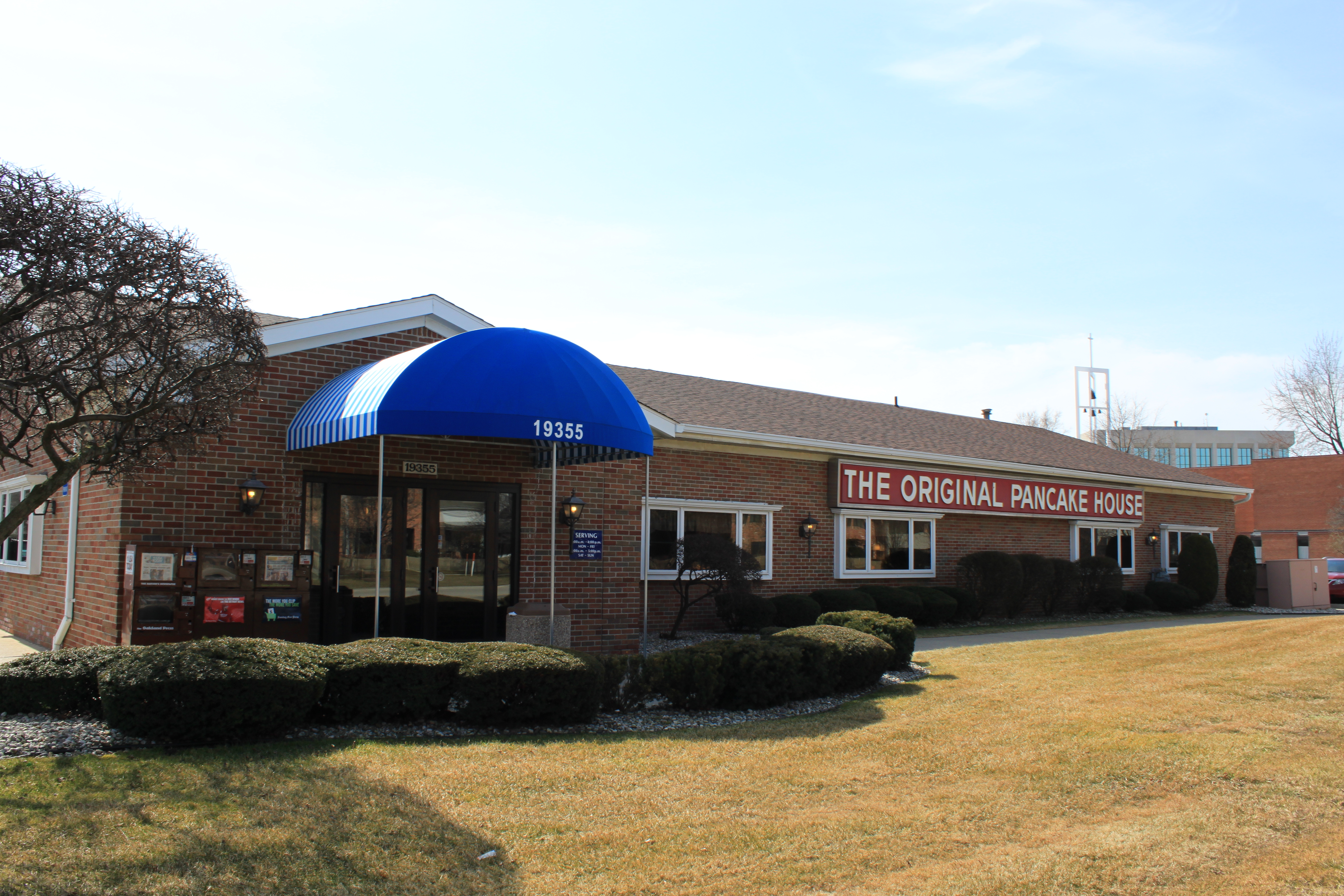 The Original Pancake House chain restaurant, 19355 West Ten Mile Road, Southfield, Michigan.